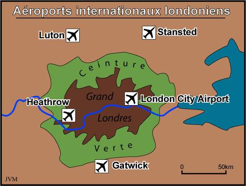 This map shows the location of the five international airports in the London area (London City, Gatwick, Luton, Stansted and Heathrow).